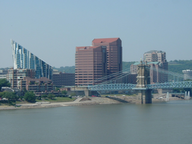 Covington Skyline from US 27 Bridge